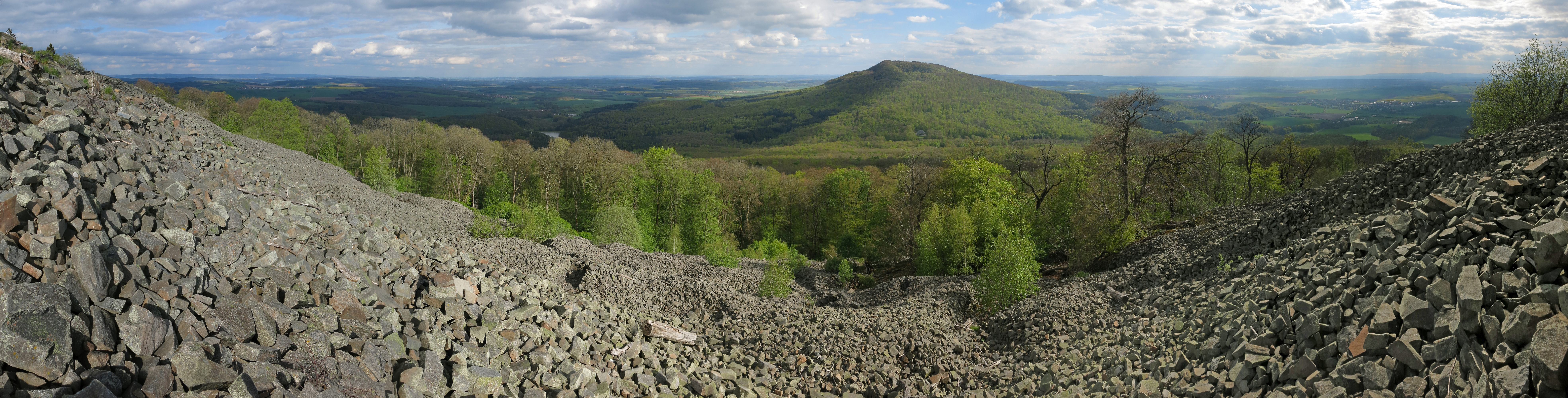 View from the stone run on the summit of Kleiner Gleichberg southward.